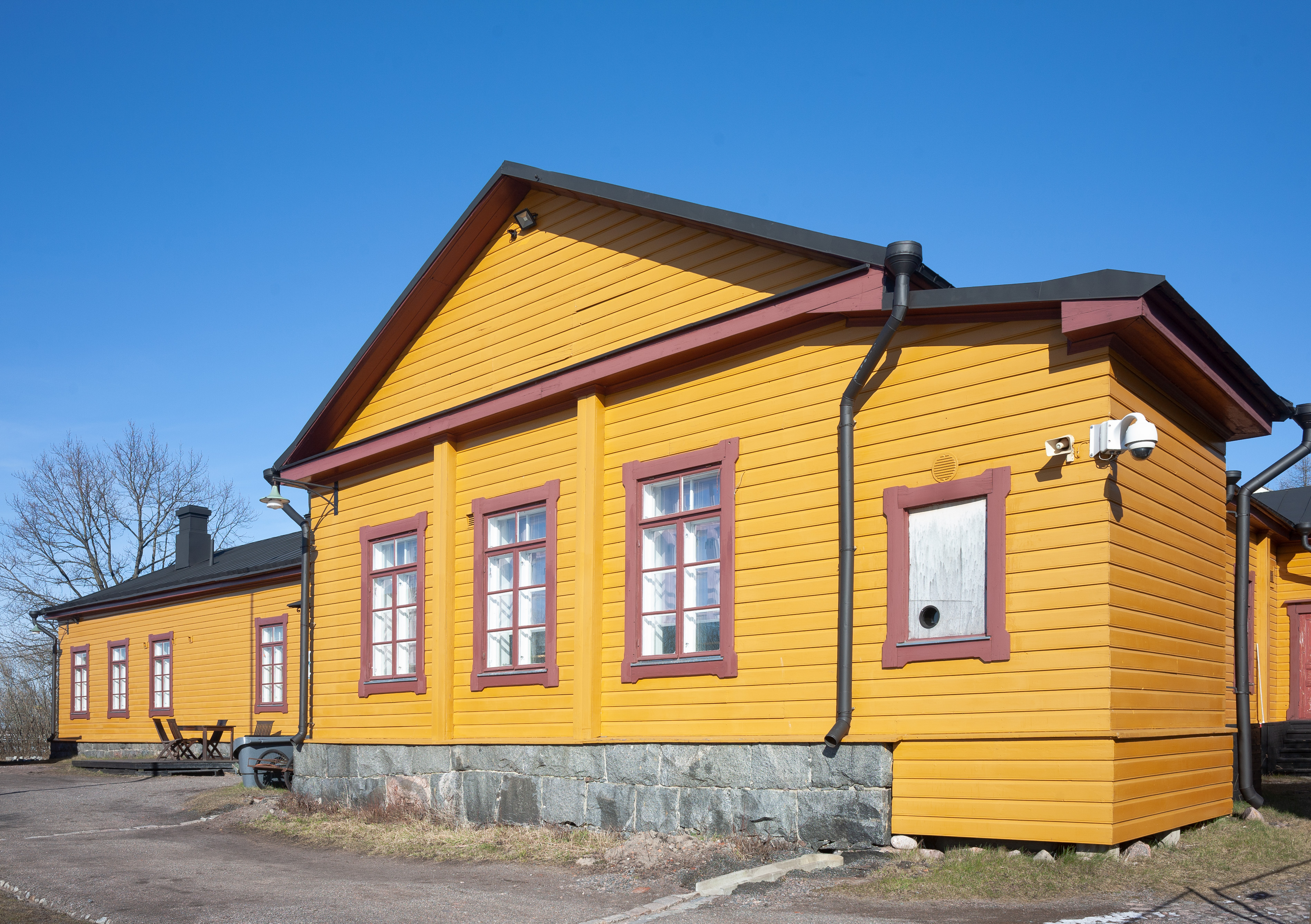 Coast Guard Station, Suomenlinna C 25.